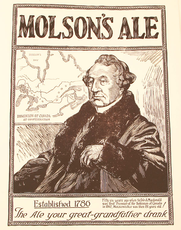 Advertisement for Molson Brewery. Inscription: Inscribed in the print, recto t.: MOLSON'S ALE; l.l.: ESTABLISHED 1786; l.r.: Fifty six years ago when Sir John A. Macdonald/ was first premier of the Dominion of Canada/ in 1867, MOLSON'S ALE was then 81 years old!; b.: The ale your great-grandfather drank.